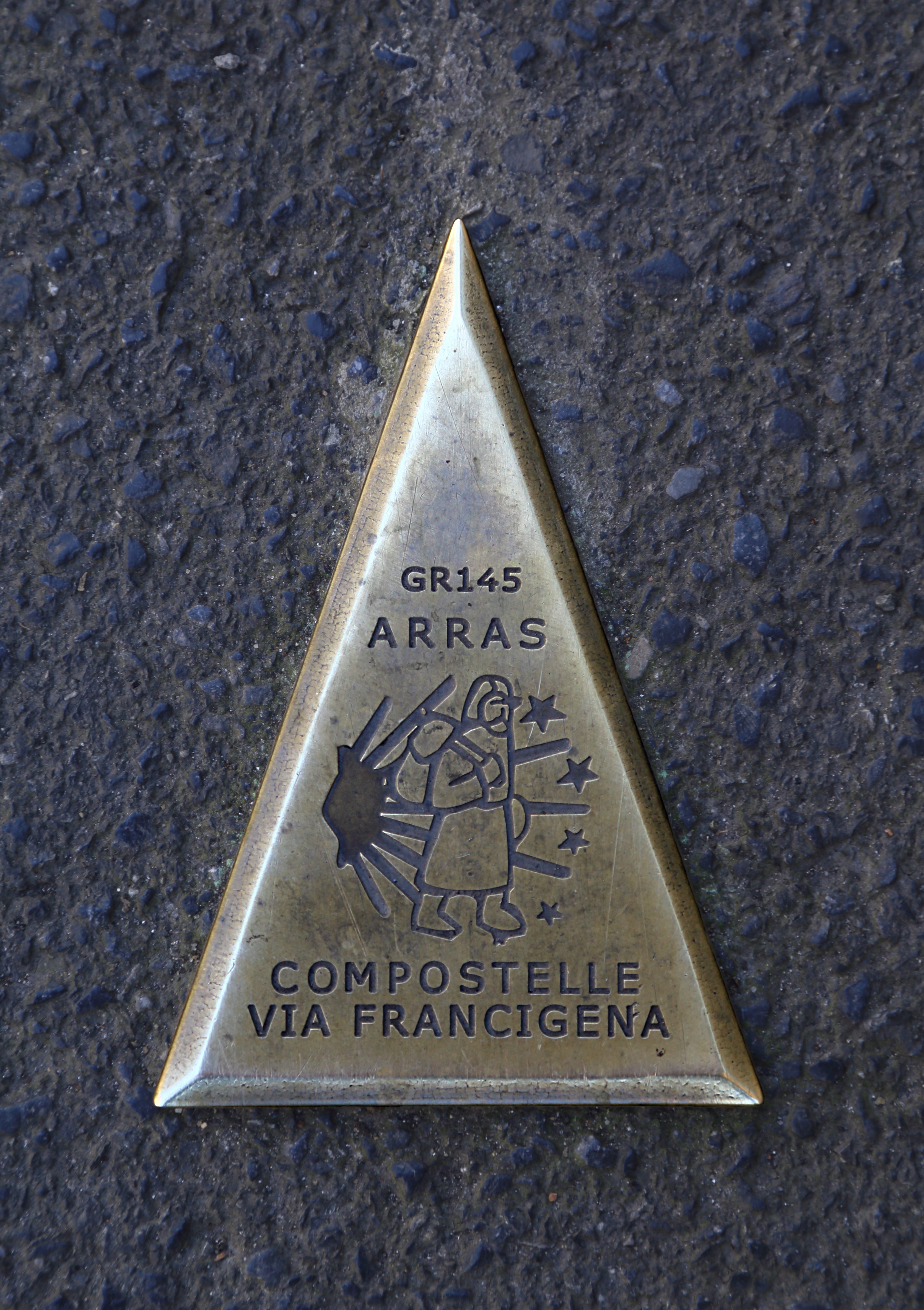 Marker showing the way to Santiago de Compostela, on a pavement, rue aux Ours in Arras, France.